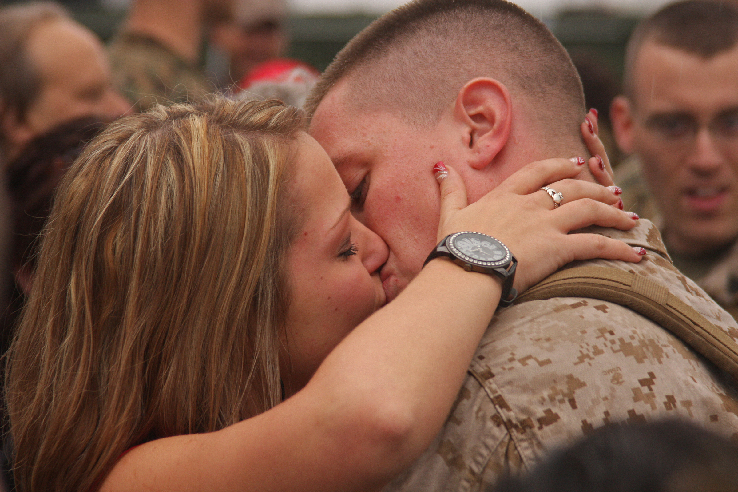 Marines with HMM-365 (REIN) returned from their seven month deployment to Afghanistan with the 24th MEU Nov. 3.